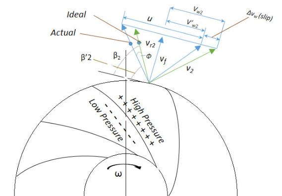 This file represents the slip factor diagram